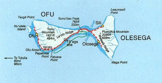 NPS map of Ofu-Olosega, American Samoa